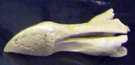 Upper jaw of a dodo taken to Europe in the 17th century, National Museum of Prague.